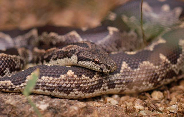 Gongylophis conicus, Bannerghatta, India